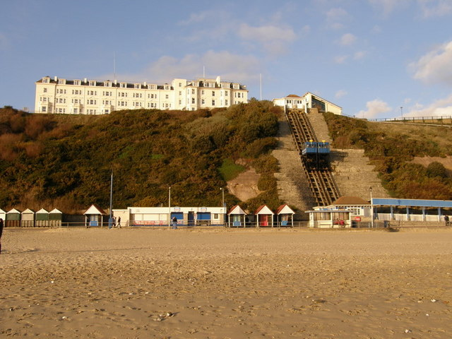 The West Cliff Railway at Bournemouth, Dorset, England. For more information see the Wikipedia article West Cliff Railway .